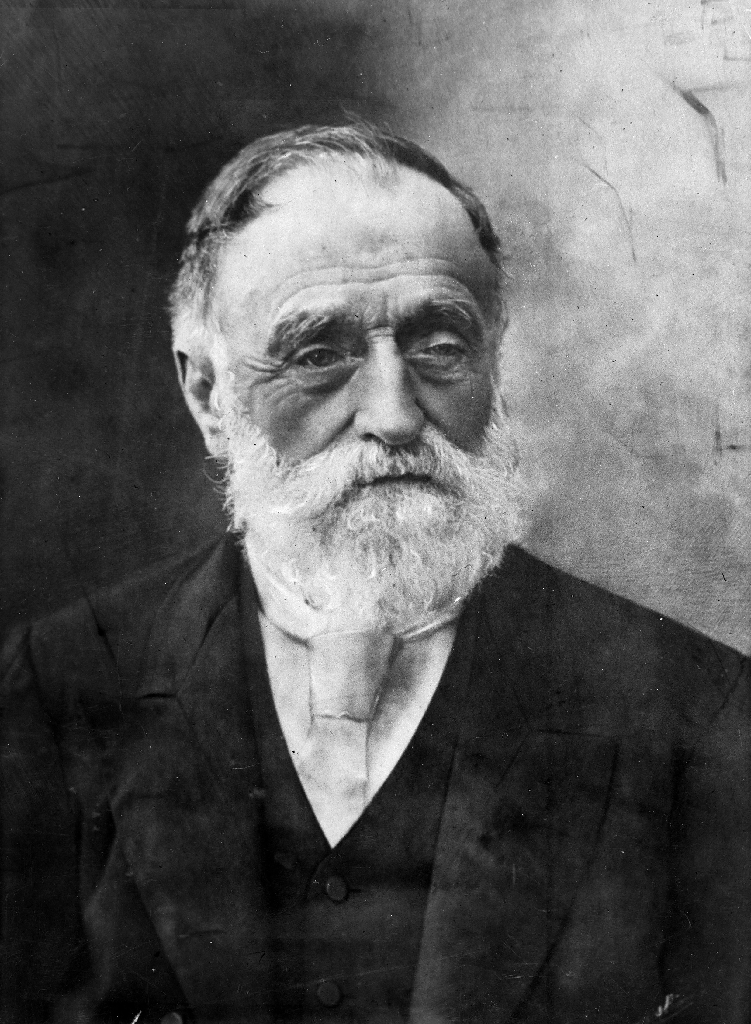 Charles Johnson Pharazyn before he resigned from the Legislative council. Taken by an unknown photographer in the 1870s.